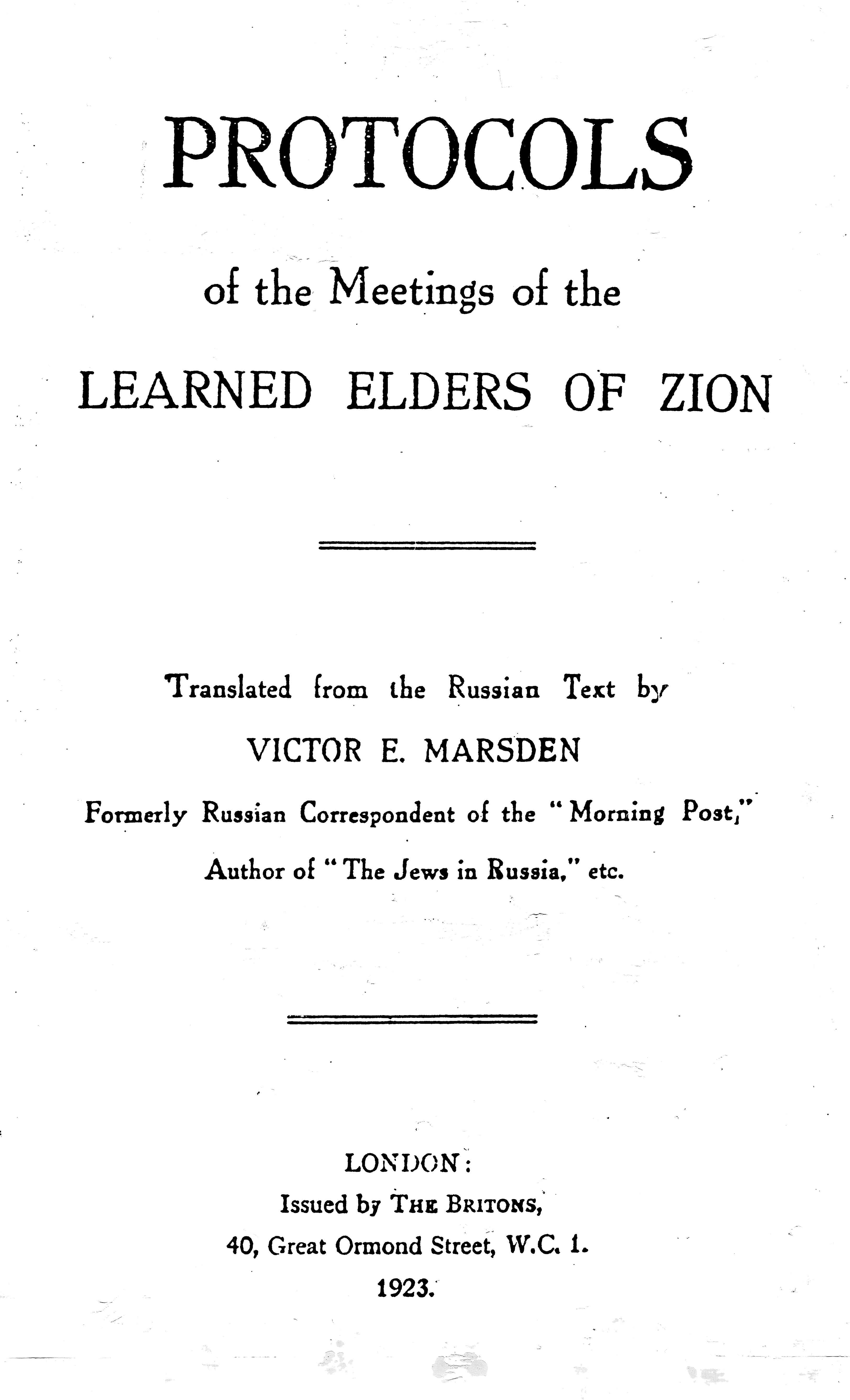 Marsden died 1920, Nilus died 1929. UK author's copyright expires 70 years after the authors' death. Publishers copyright expires 25 years after publication (it was published 1923). So this is in the public domain.